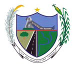 Coat of arms of the city of Rorainópolis, Roraima, Brazil.